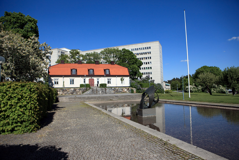 Råcksta gård